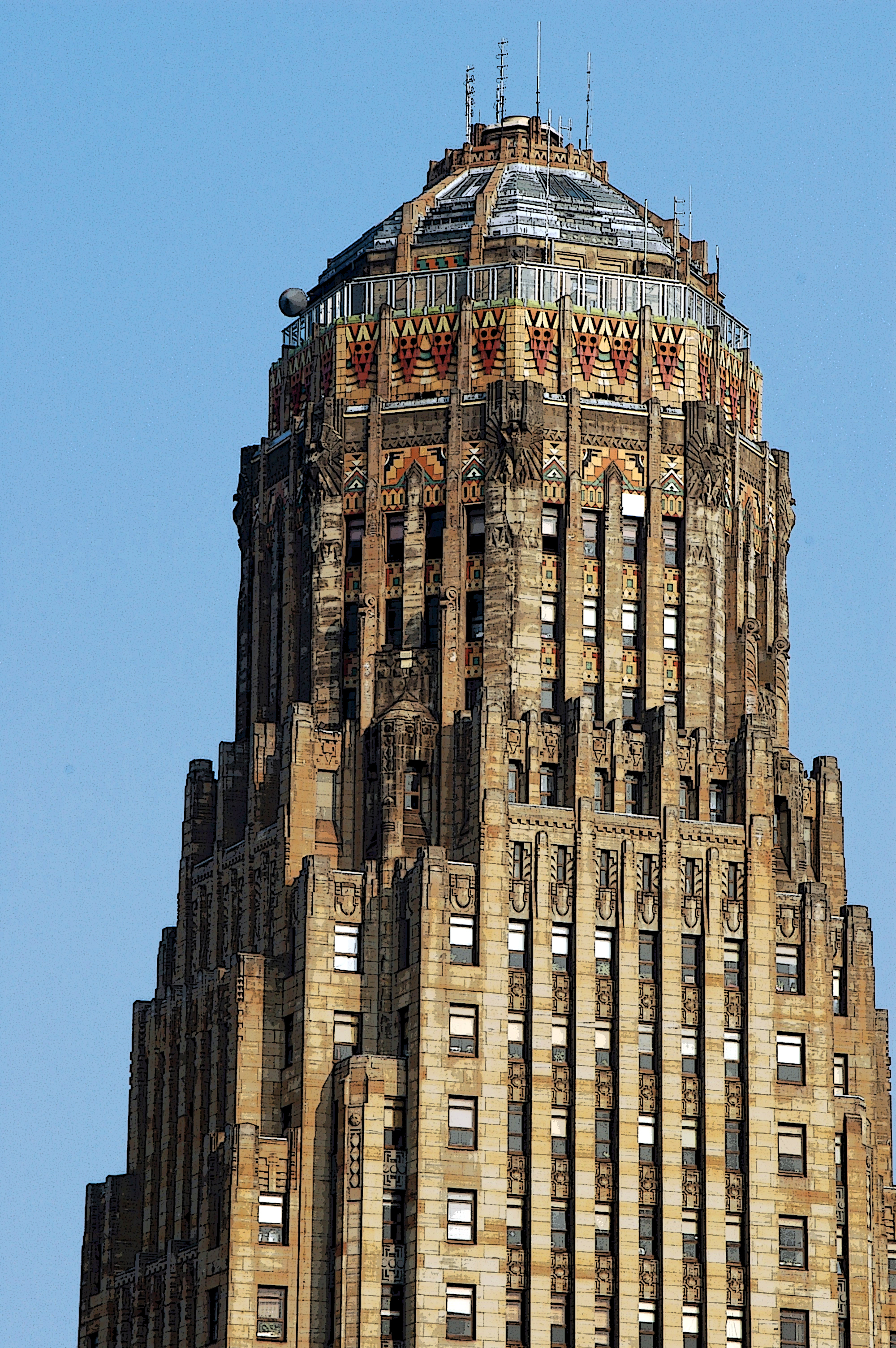 City Hall, Buffalo NYBuffalo City Hall